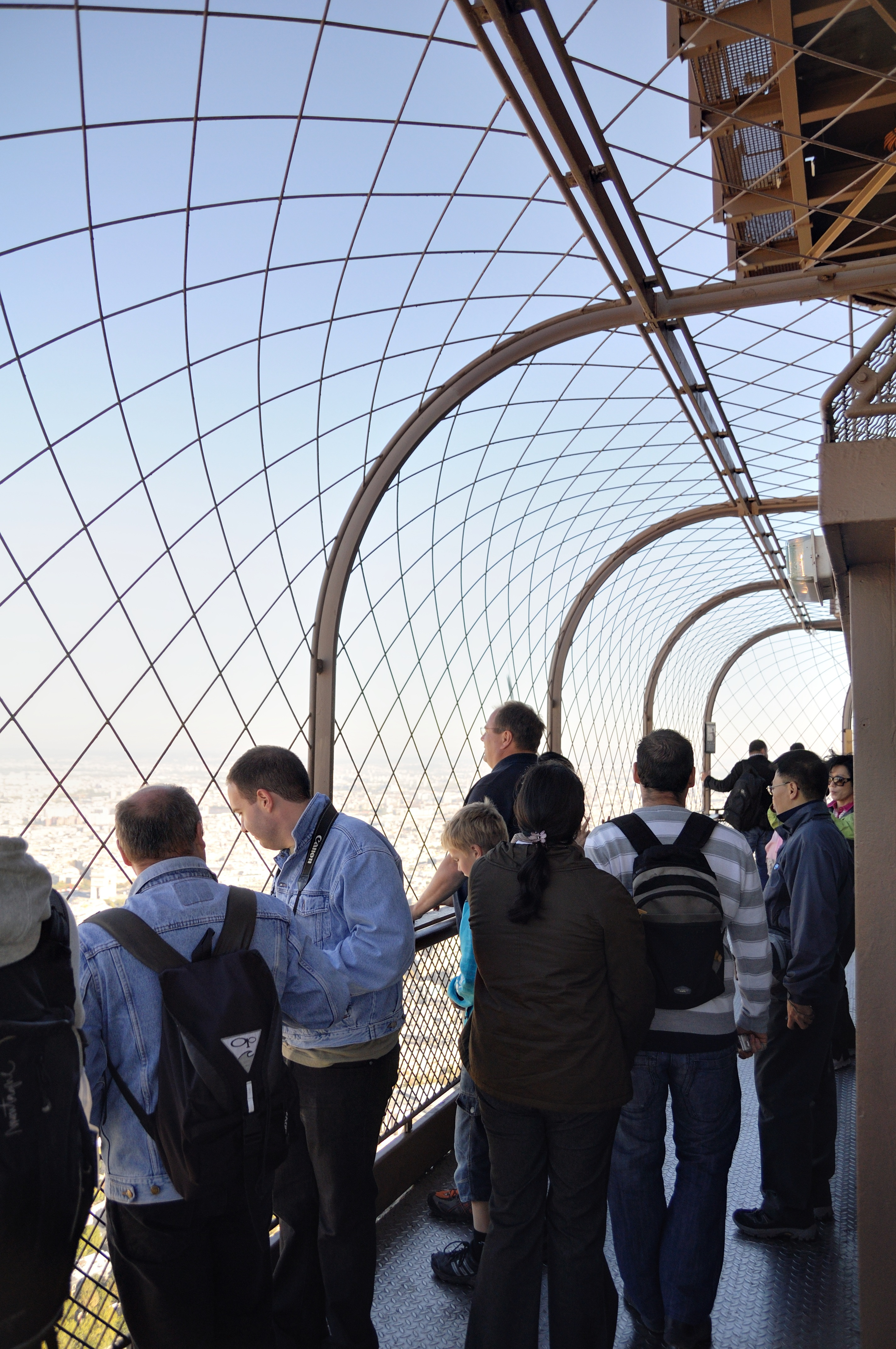 Third floor of the Eiffel Tower, Paris, France.